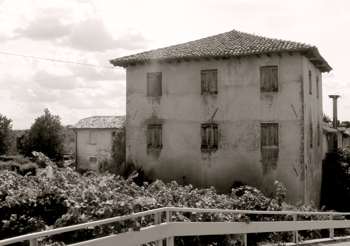 San Michele: casa rurale